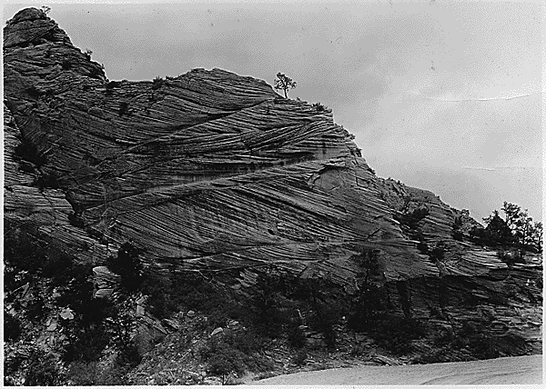 Crossbedding of sandstone near Mt. Carmel road, indicating wind action and sand dune formation prior to formation of rock, 09/02/1929